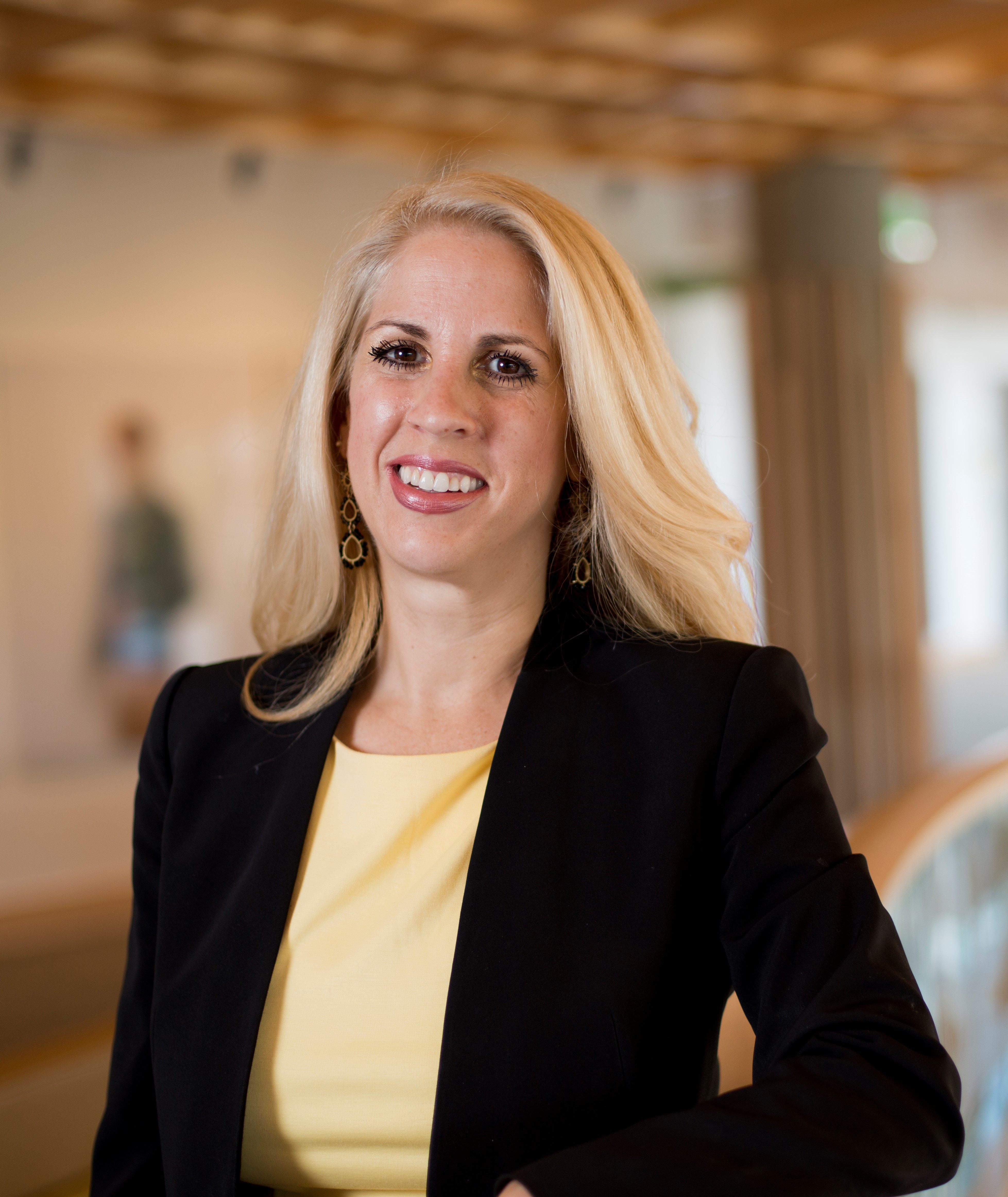 Michal Grinstein-Weiss